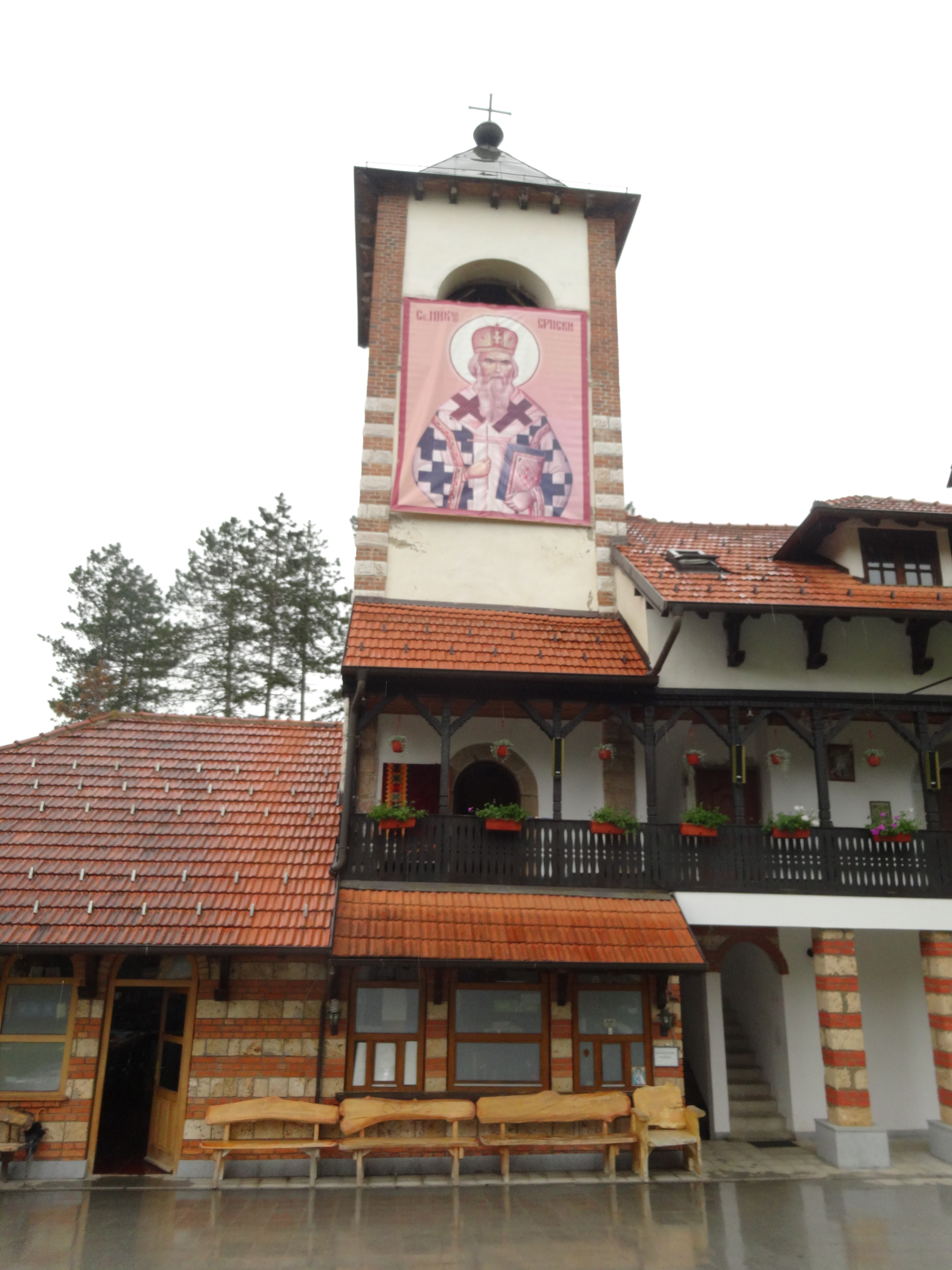 Lelić Monastery in Valjevo, Serbia.